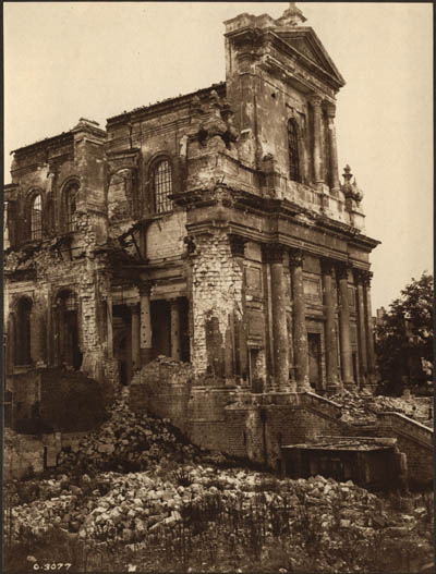 Digital Image Number: I0004842.jpg Title: The main entrance to the Arras Cathedral showing the roof completely blown off and the steps covered with fallen masonry Date: August 1918 Creator: Lieutenant William Rider-Rider, Official Canadian War Photographer. Canadian War Records Office Format: Black and white print Reference Code: C 224 Item Reference Code: C 224-0-0-10-32 Subject: War,World War, 1914-1918,War damage,Churches,Cathedrals